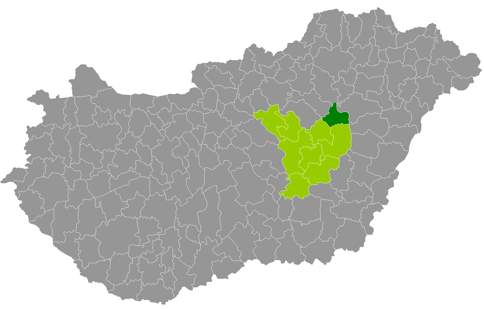 Location of Tiszafüred District, Jász-Nagykun-Szolnok, Hungary